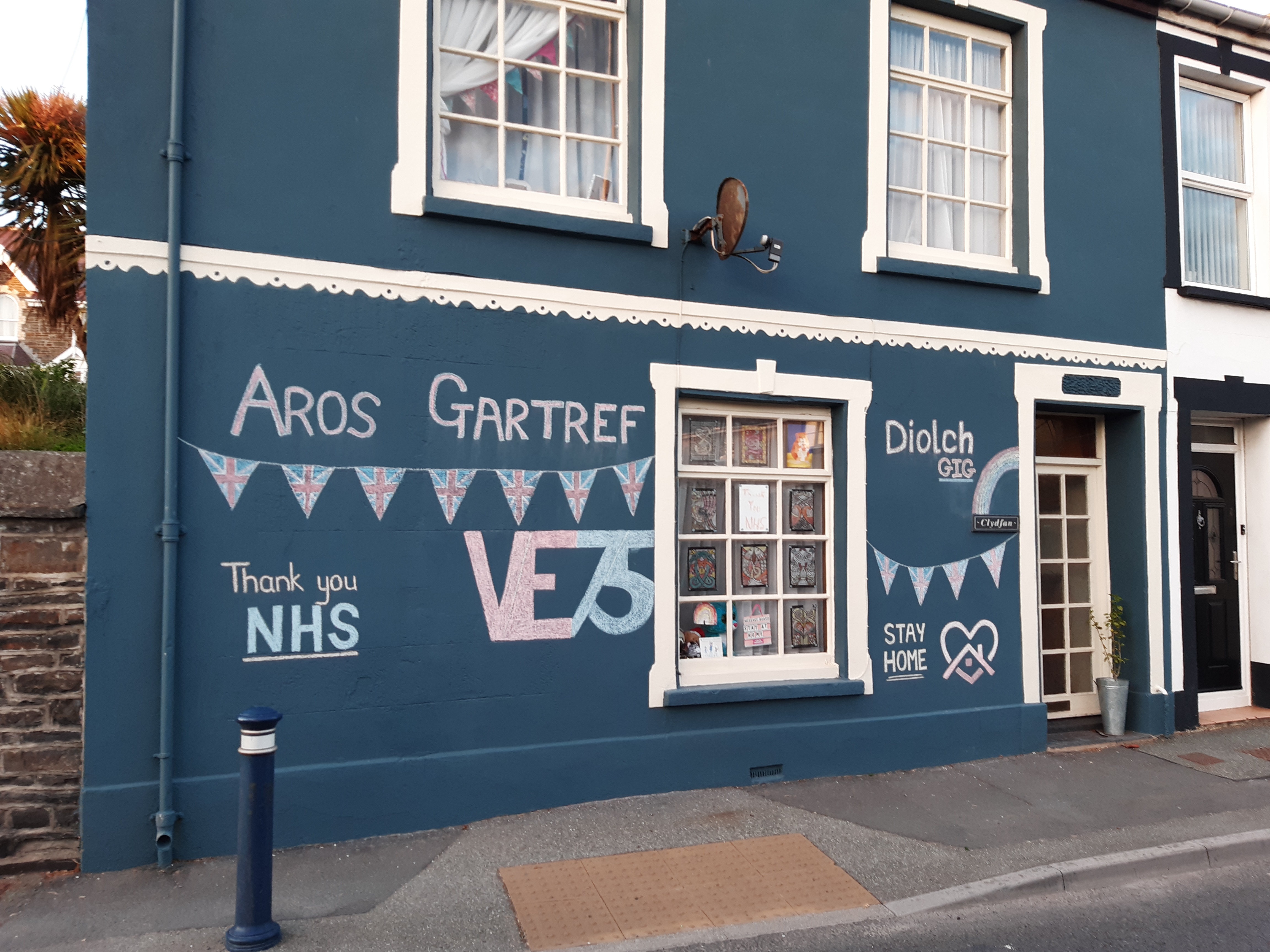 Chalk mural on house front at Llandadarn Fawr, Aberystwyth - Welsh "Aros gartref" (Stay Home) "Diolch" (thank you) NHS & sign to remember VE Day 75th anniversary which coincided with COVID-19